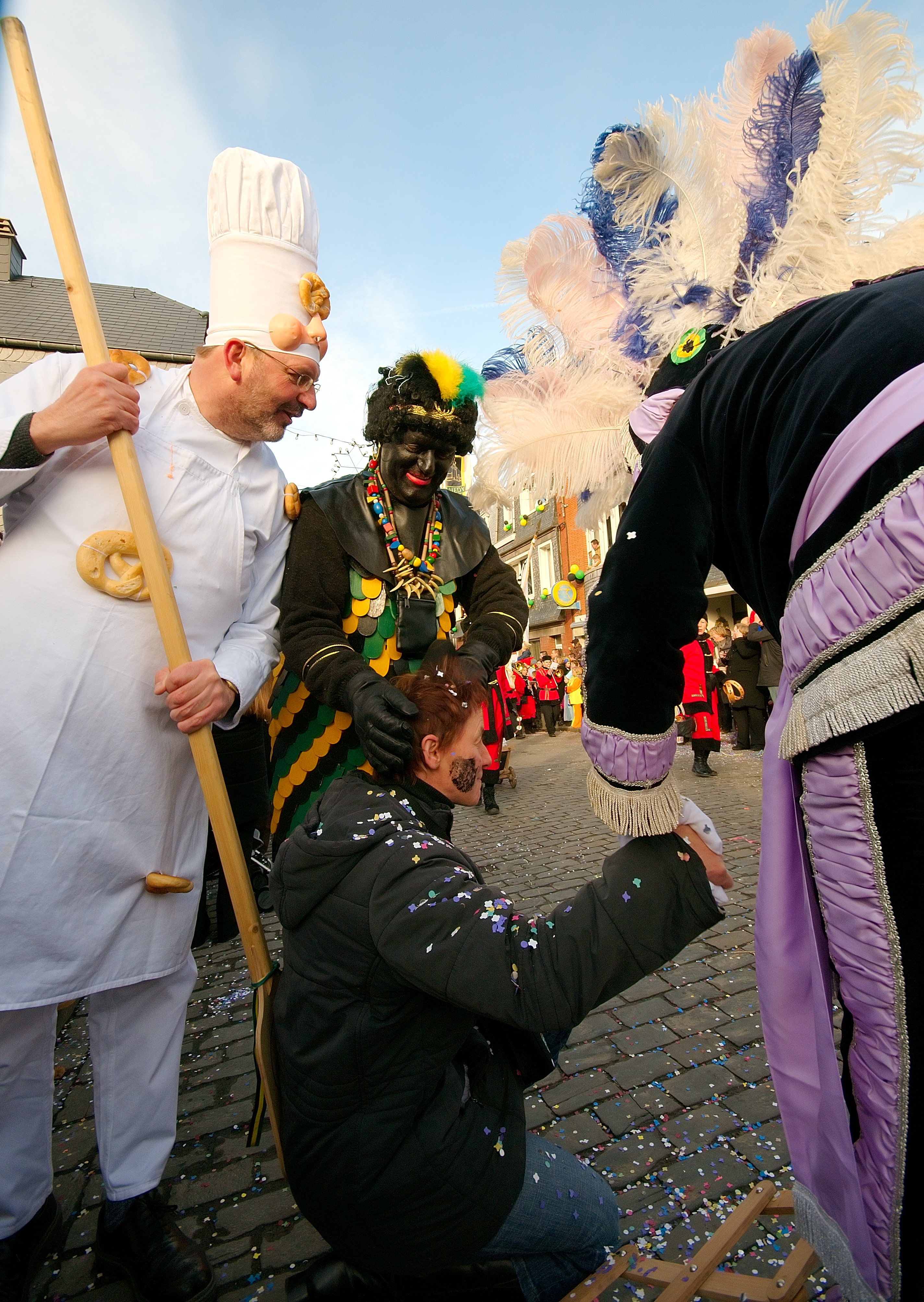 Carnival Malmedy Belgium